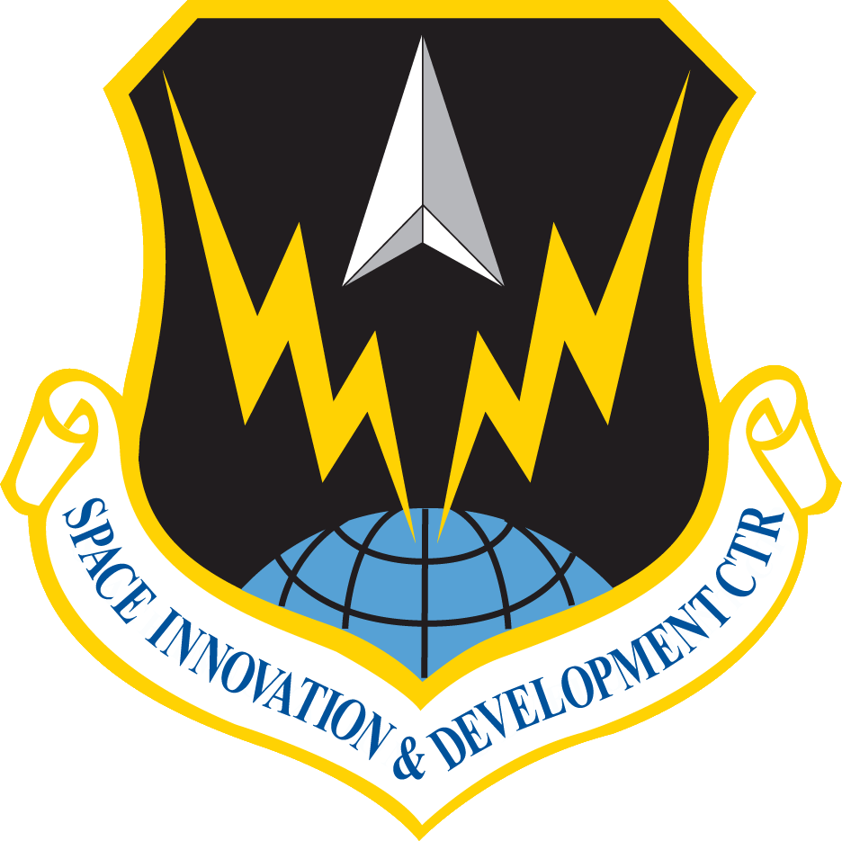 Emblem of the Space Innovation and Development Center (SIDC) of the United States Air Force